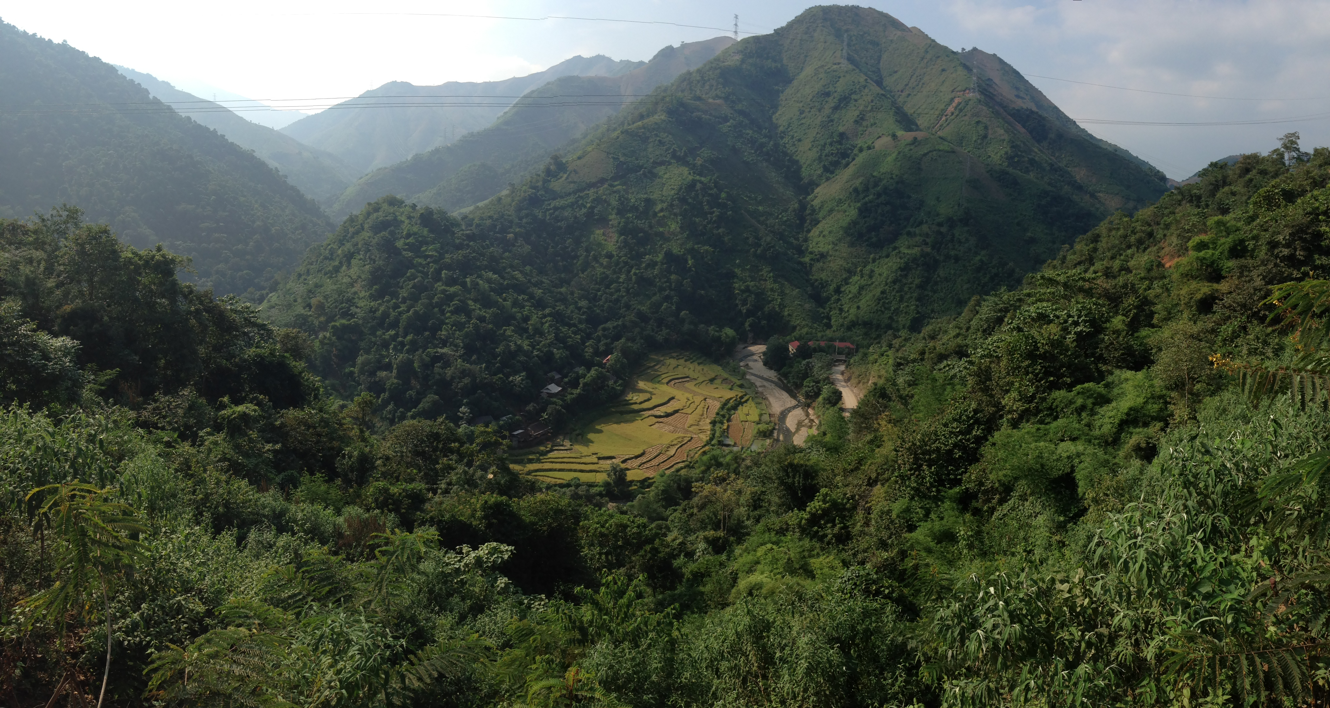 Area around BPNM, Ban Phuc